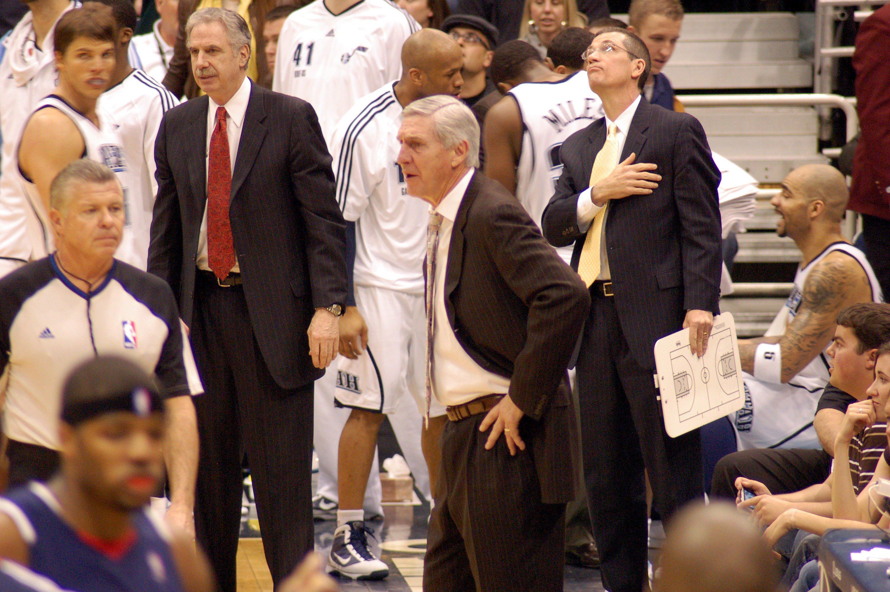 Jerry Sloan